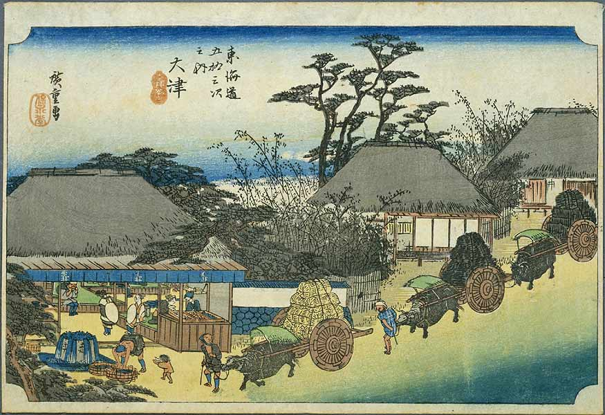 Otsu on the Tokaido, ukiyo-e prints by Hiroshige